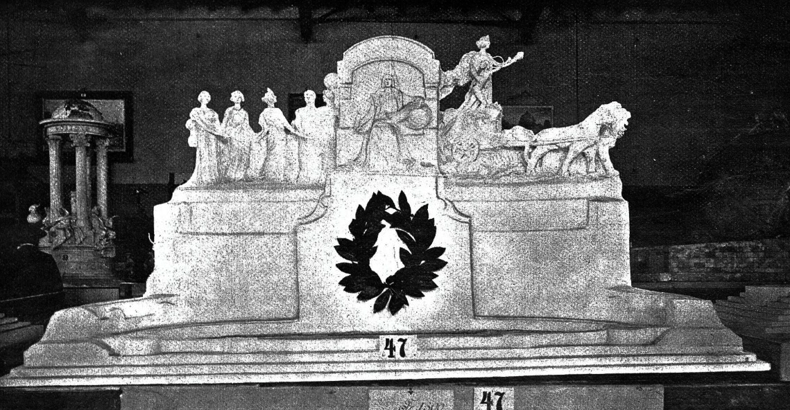 Weltpostdenkmal-Entwurf für das Weltpostvereinsdenkmal in Bern von Giuseppe Chiattone (1863–1954) Bildhauer.